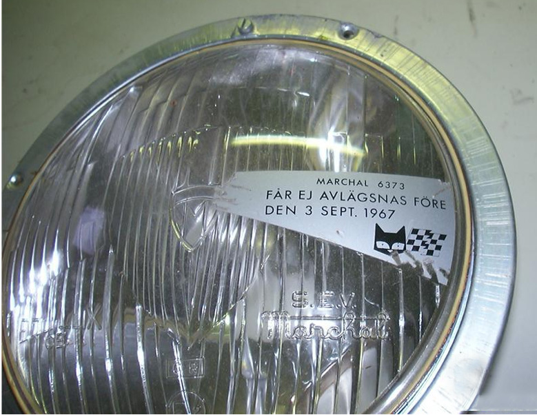 Marchal Equilux headlamp sold in Sweden with label obscuring lens optics that provide low beam upkick to the right and bearing warning not to remove the label before Dagen H.